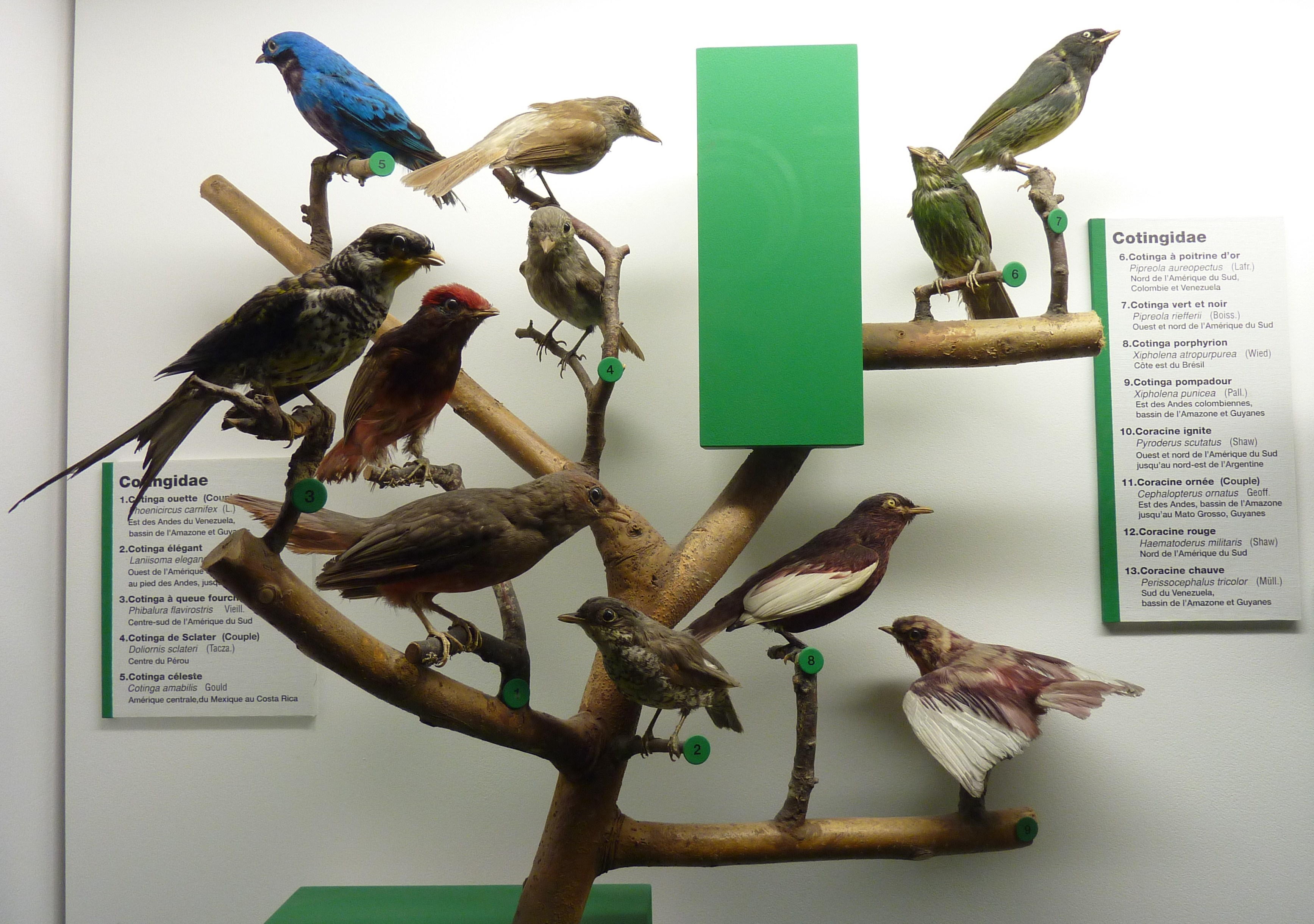 Few members of the Cotingidae family